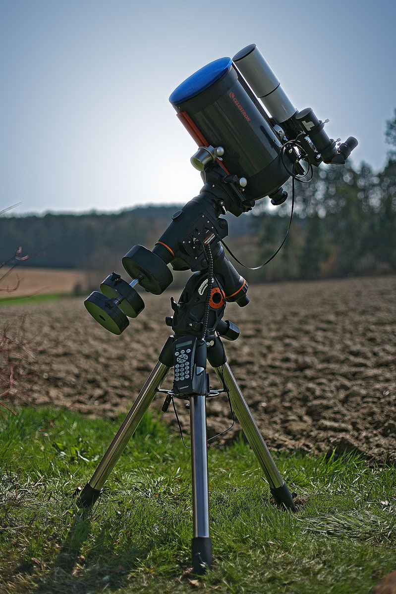 goto-telescope with guiding-scope mounted "piggyback"